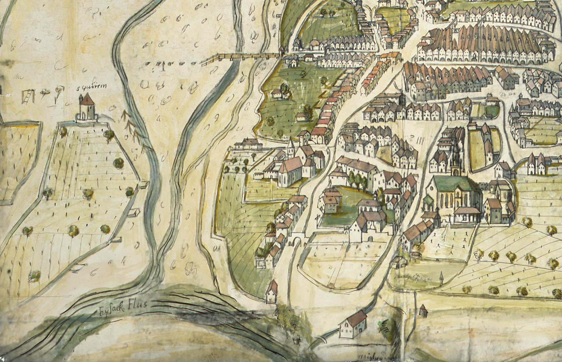 Historical view of the city of Bozen-Bolzano, South Tyrol, from the early 17th century (1607)